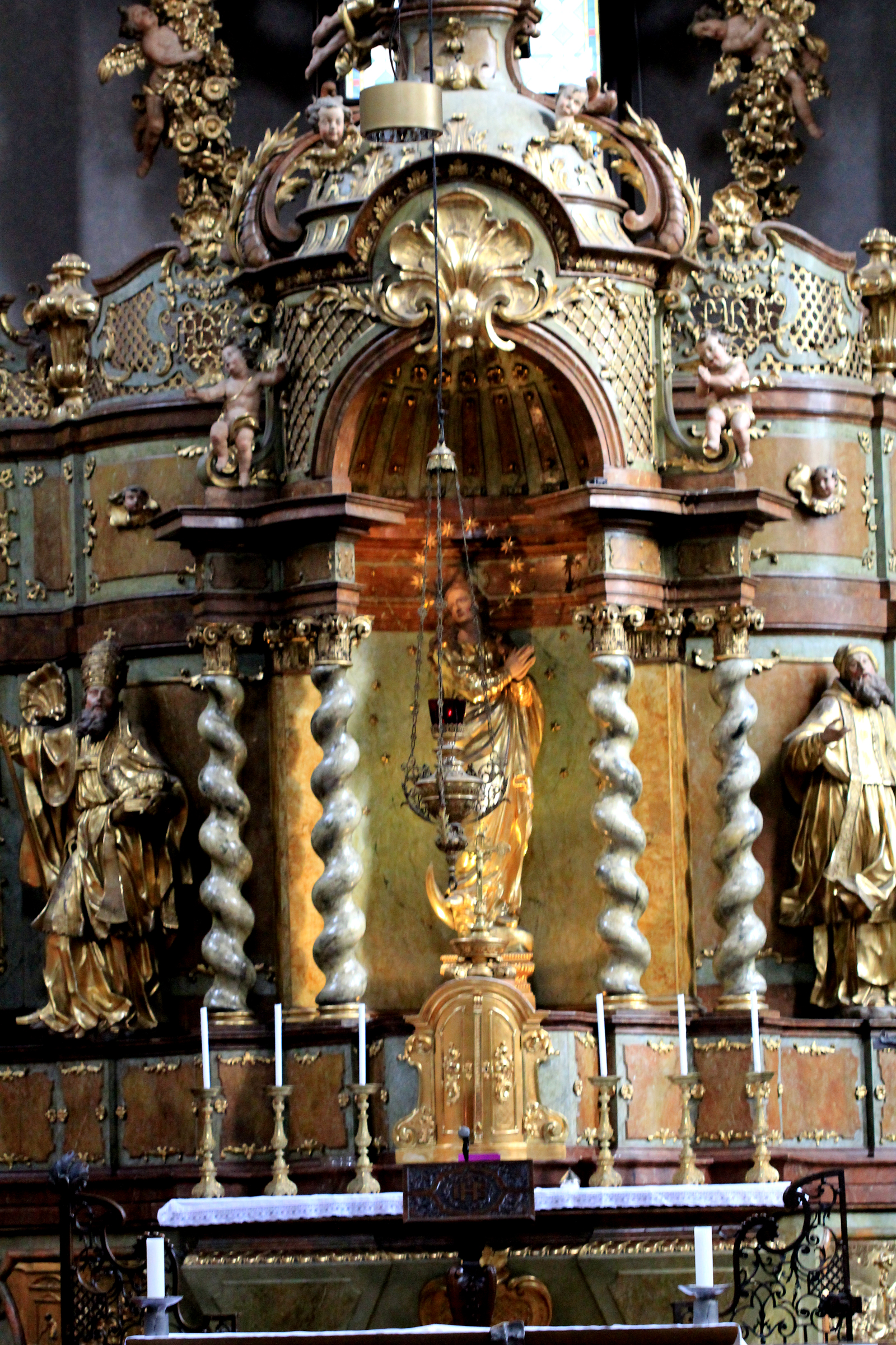 Interior of St Gilles's church in Prague, Czech Republic